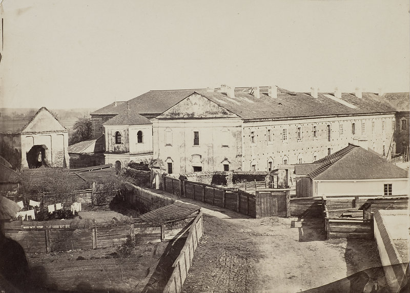 Bridgettines monastery in Lutsk